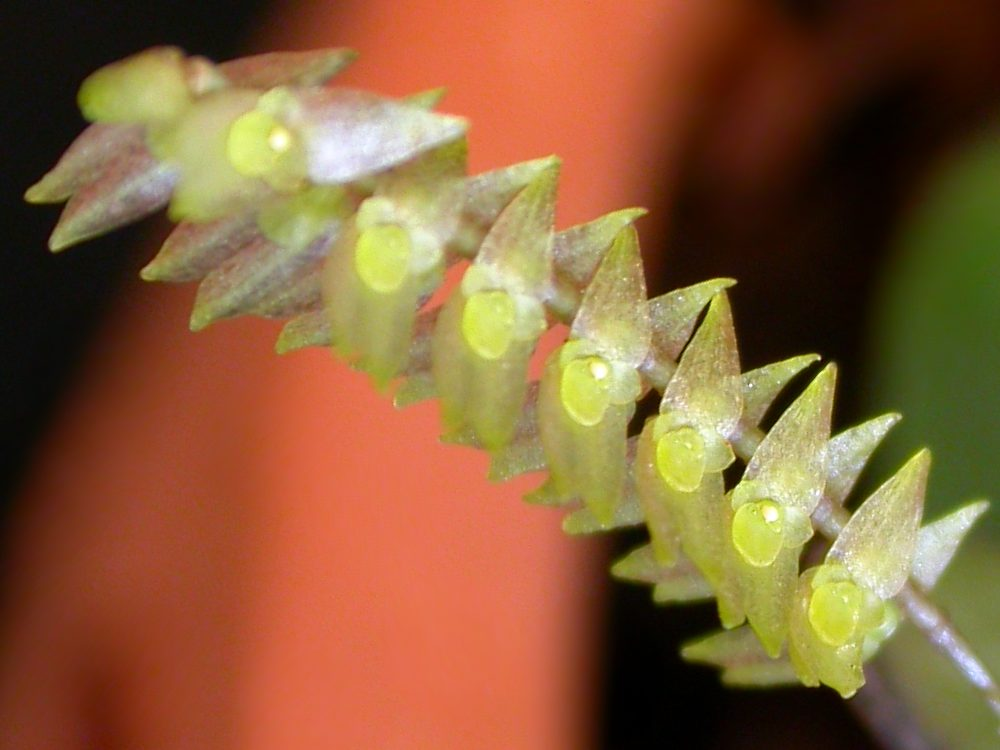 Lepanthopsis floripecten